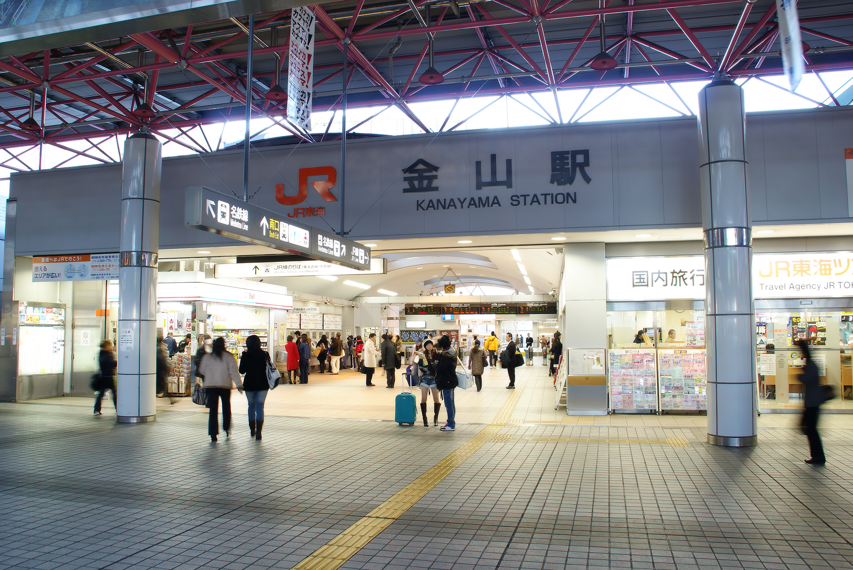 Central Japan Railway, Ticket Gate of Kanayama Station.(Naka Ward, Nagoya City, Aichi Prefecture, Japan)